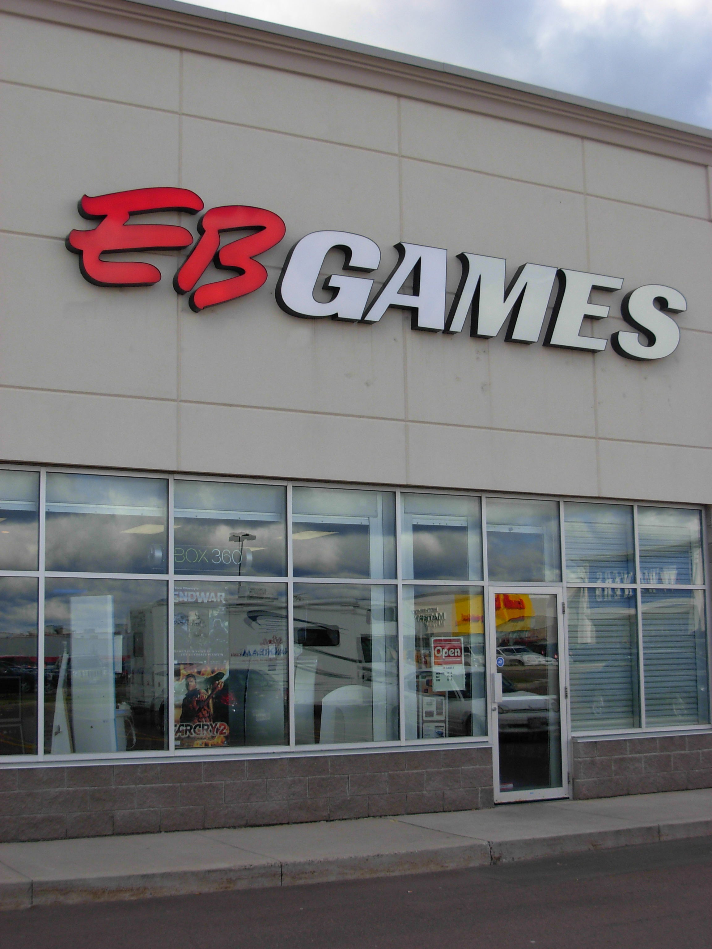 An EB Games location in Moncton